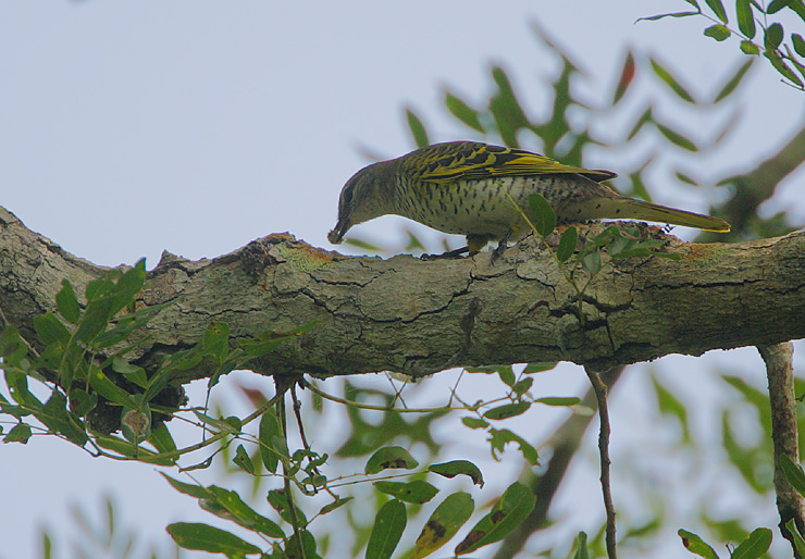 Image taken in Arabuko-Sokoke Forest, coastal Kenya. This is the more attractively marked female -males are all black. An intra-African migrant spending the austral winter in east Africa then returning to southern Africa to breed.